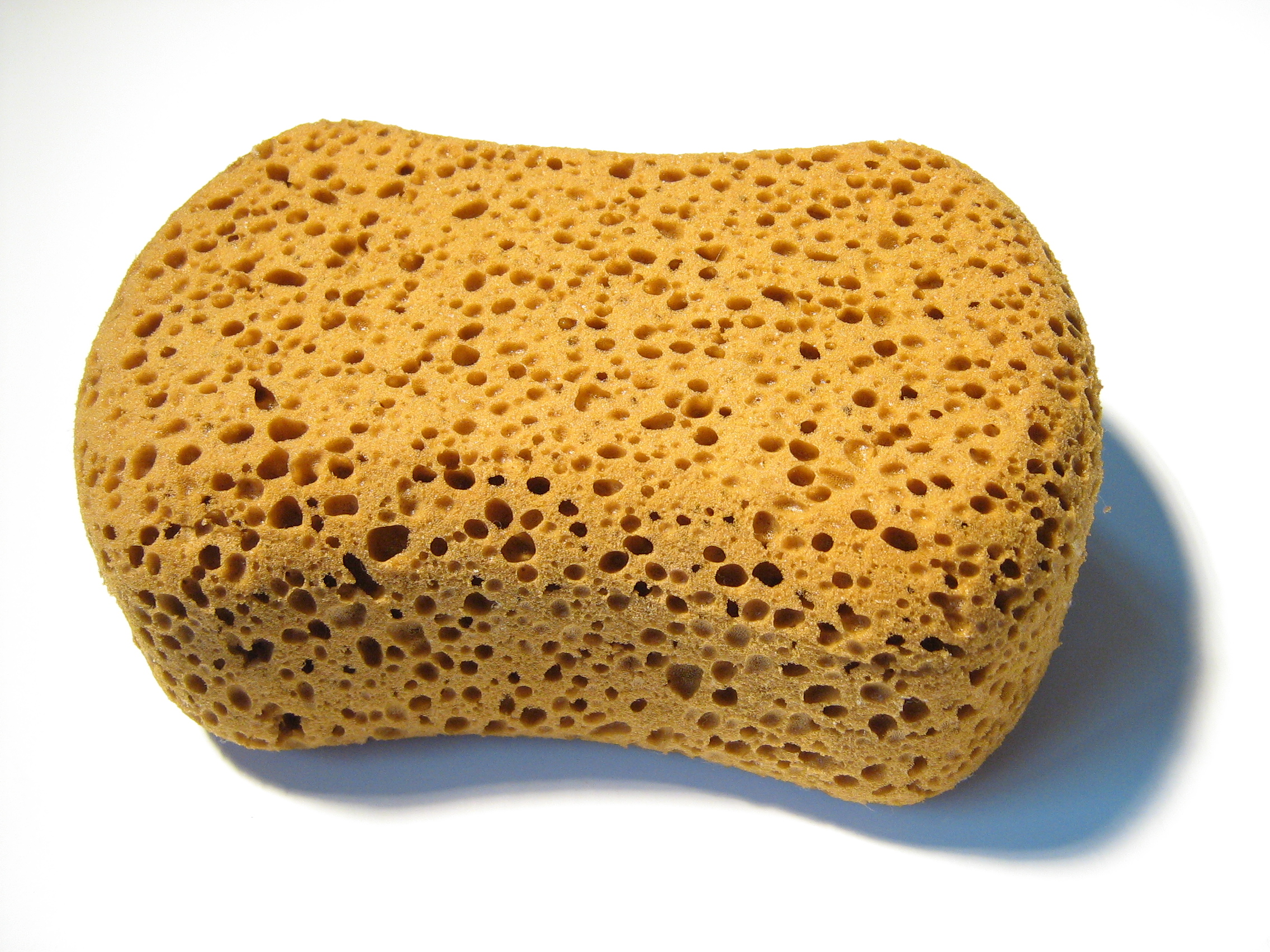 A synthetic sponge, to be used in household.